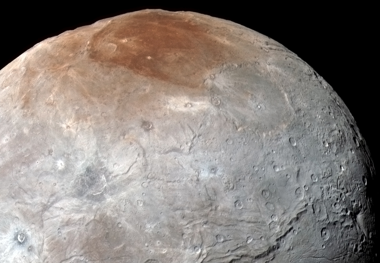 Charon seen from New Horizons, July 14, 2015. Pluto's moon Charon Charon in Enhanced Color NASA's New Horizons captured this high-resolution enhanced color view of Charon just before closest approach on July 14, 2015. The image combines blue, red and infrared images taken by the spacecraft’s Ralph/Multispectral Visual Imaging Camera (MVIC); the colors are processed to best highlight the variation of surface properties across Charon. Charon’s color palette is not as diverse as Pluto’s; most striking is the reddish north (top) polar region, informally named Mordor Macula. Charon is 754 miles (1,214 kilometers) across; this image resolves details as small as 1.8 miles (2.9 kilometers).